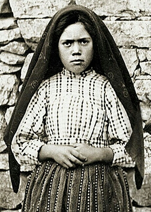 Lúcia Santos the three children whom the Virgin Mary revealed her famous "three secrets" in Fátima, Portugal.